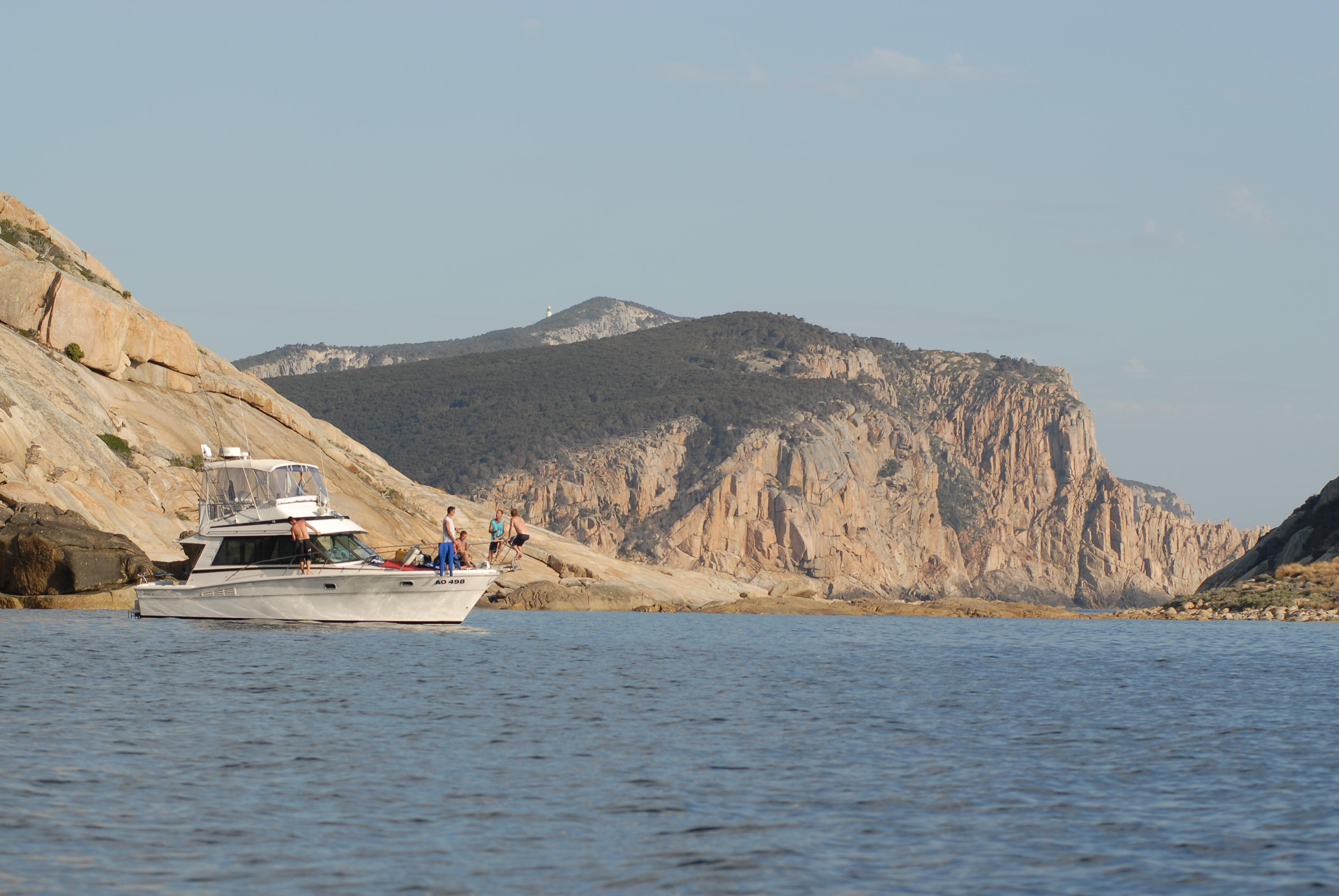 Nautic anchored at Deal Island